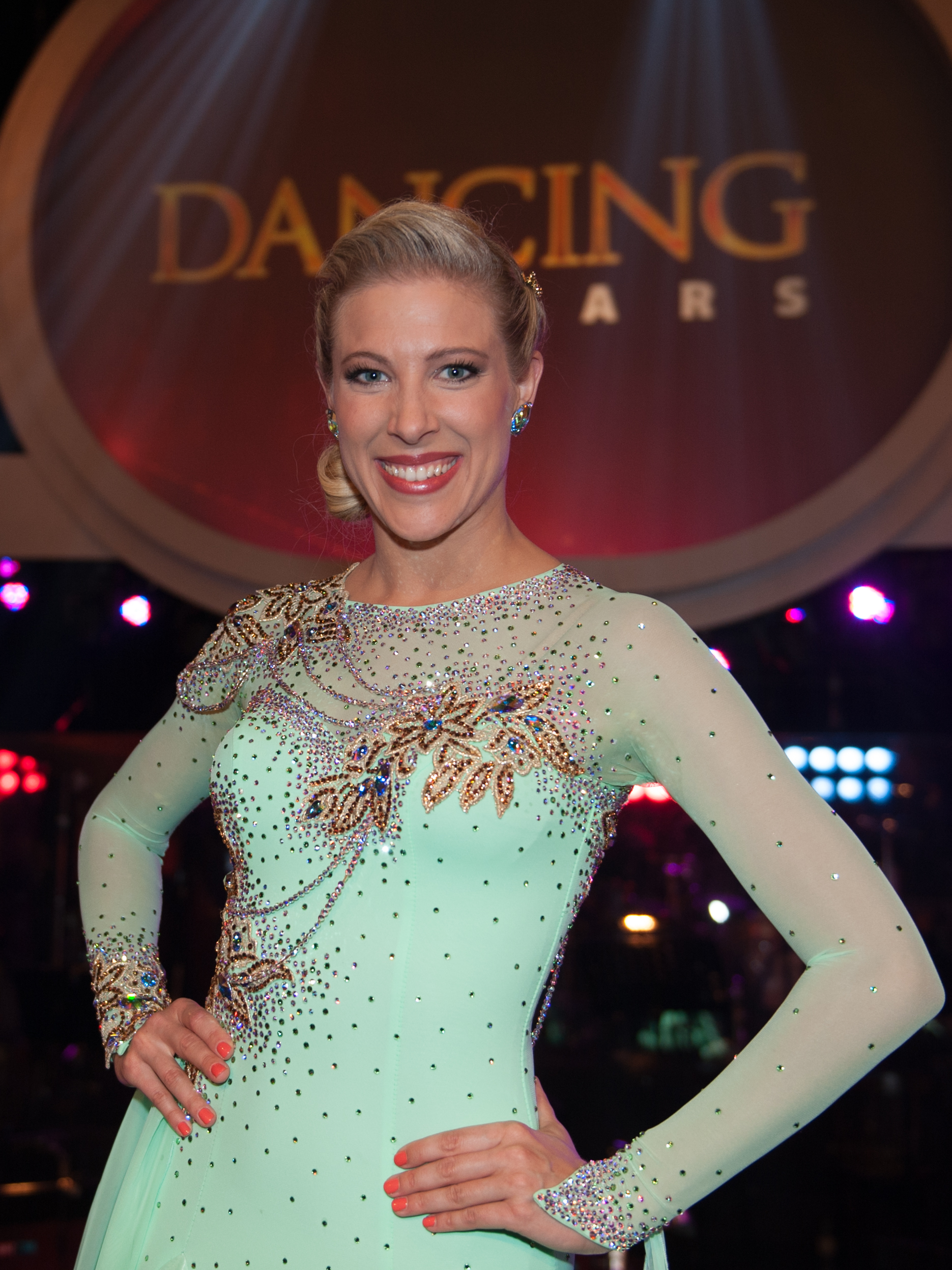 ORF Dancing Stars Opening 2016-03-04